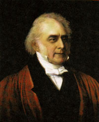 Dr. William King (17 April 1786 - 19 October 1865) was a British physician and philanthropist from Brighton